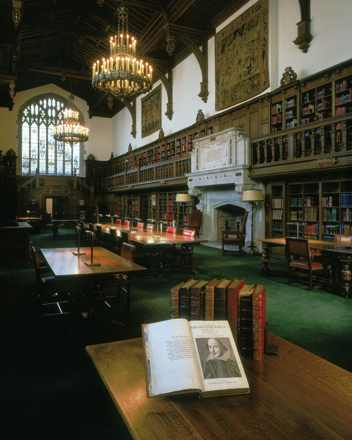 An image of the Gail Kern Paster Reading Room at the Folger Shakespeare Library